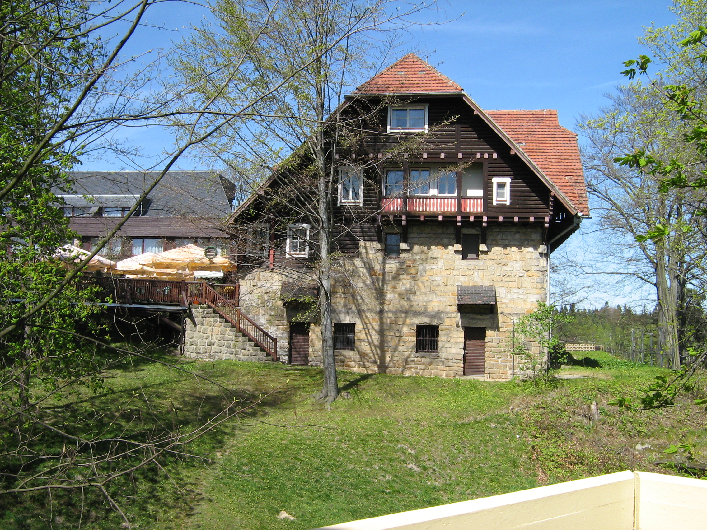 The Switzer-House from the Bastei Hotel in the Saxon Switzerland